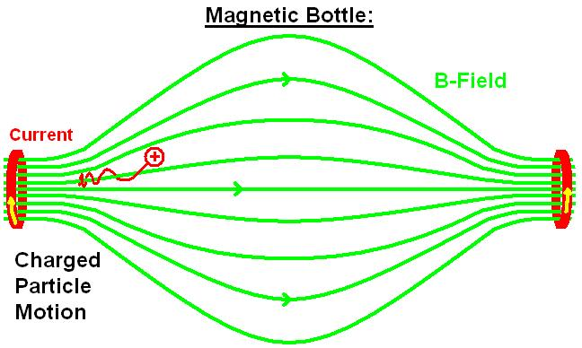 This image shows the magnetic fields (in 2D) inside a magnetic bottle. Each end consists of a dense magnetic field which charge particles can be reflected from. Particles corkscrew along these magnetic field lines, are internally reflected and trapped. They can escape if they come it at certain angles to the magnetic field.